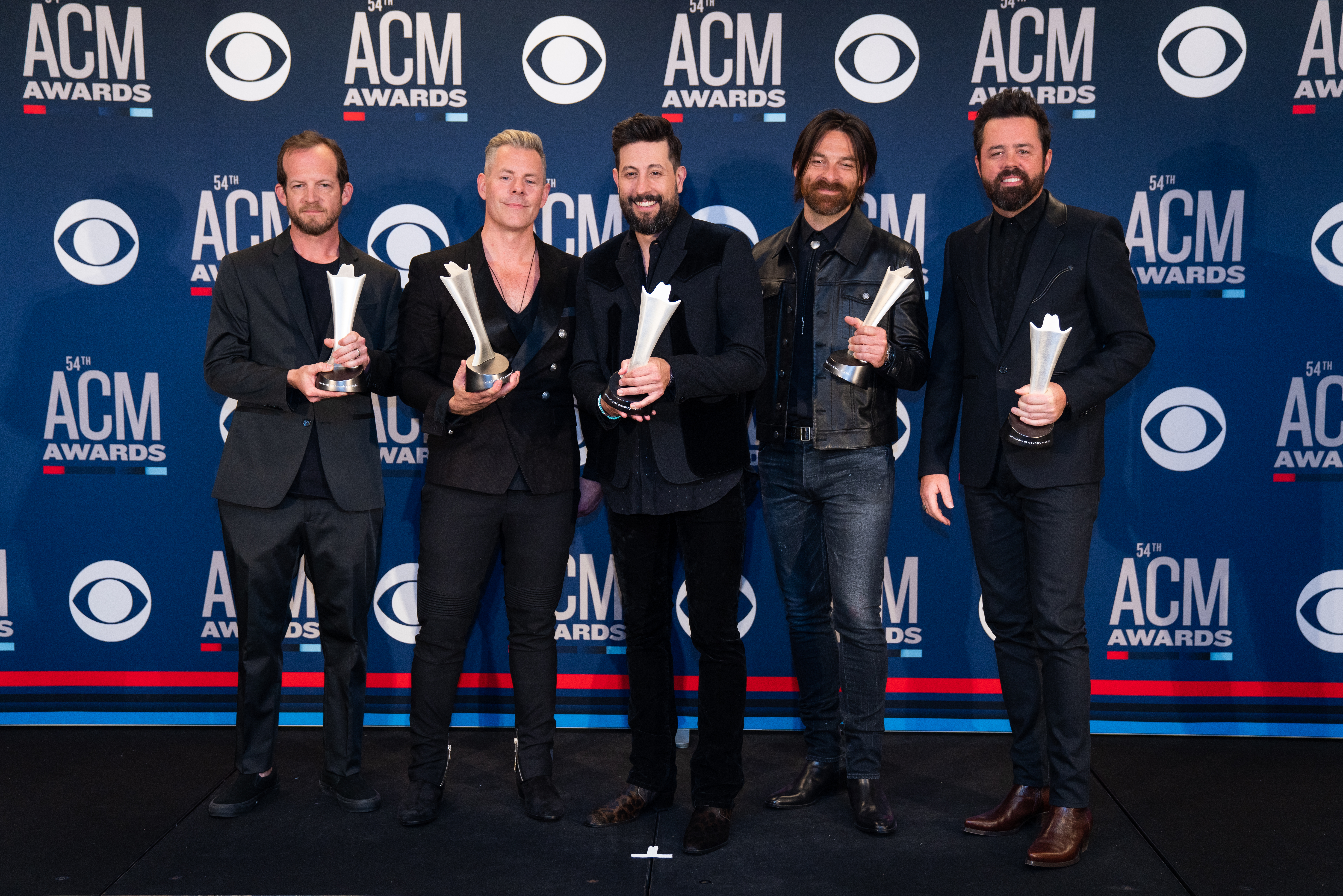 Old Dominion